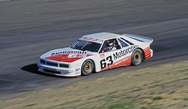 Greg Pickett won the 1984 SCCA Trans-Am race at Sears Point International Raceway, driving a Roush Protofab Mercury Capri.